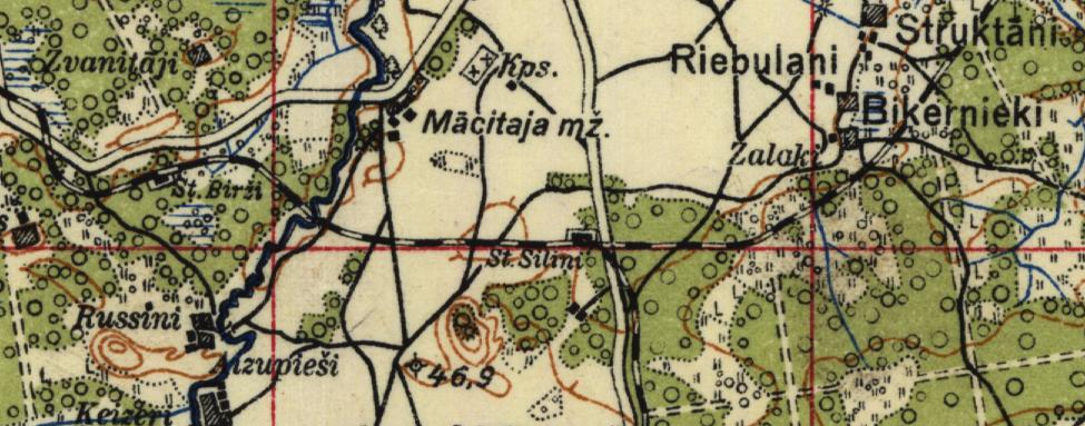 Topographic map in scale 1:75 000, 1925